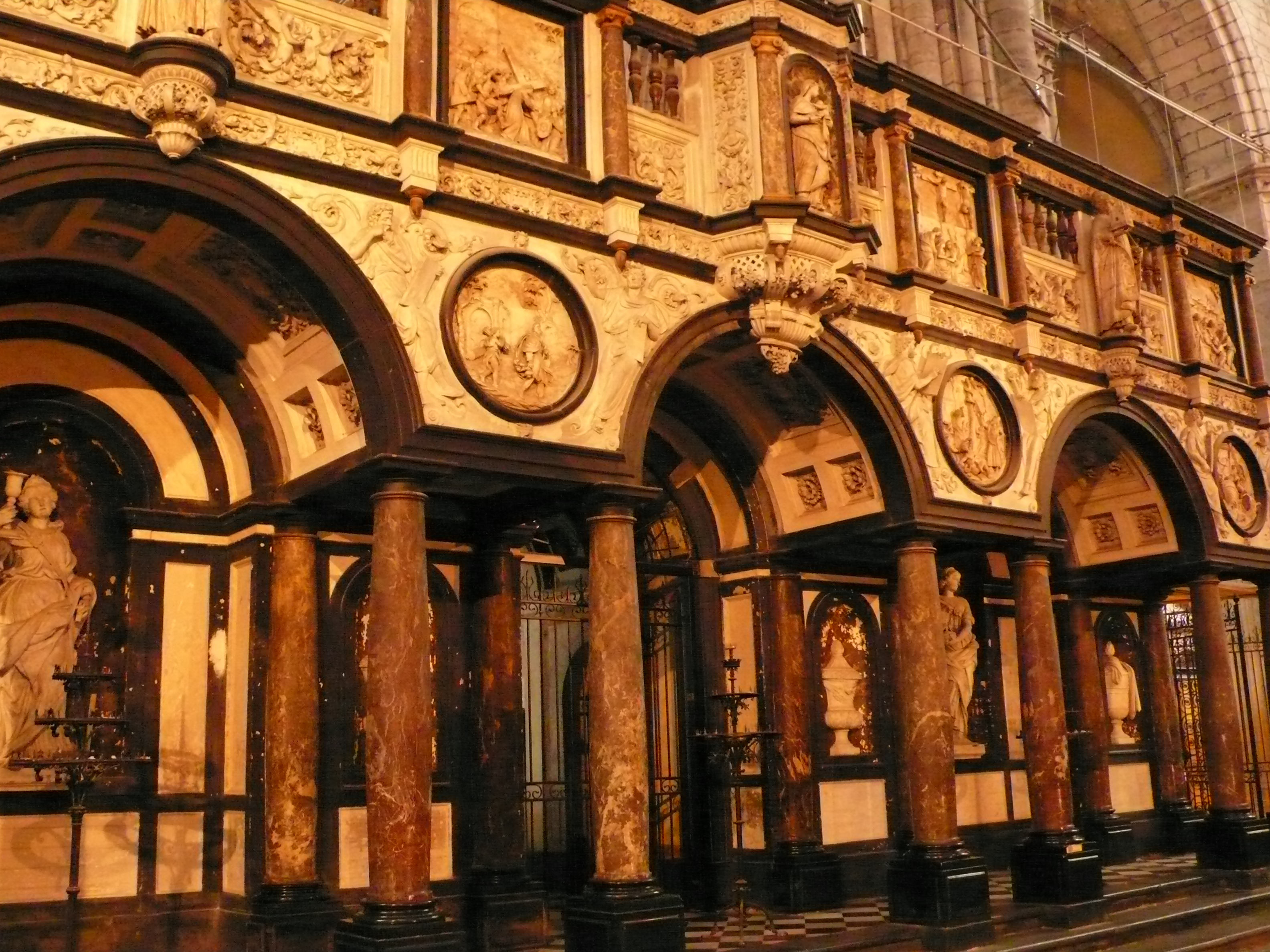 Rood screen designed by Cornelis Floris in the Notre-Dame Cathedral in Tournai